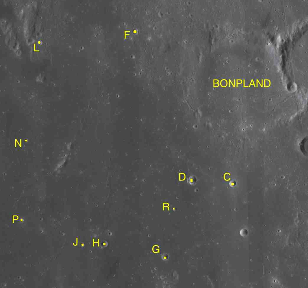 Part of the chart LAC-76 used for the presentation